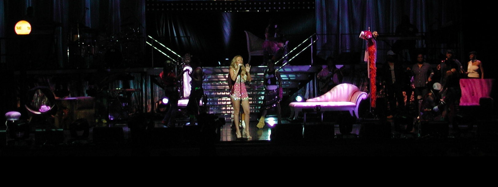 Mariah Carey performing on her 2003 Charmbracelet Tour.